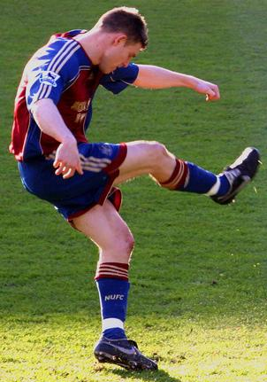 James Milner playing for Newcastle United